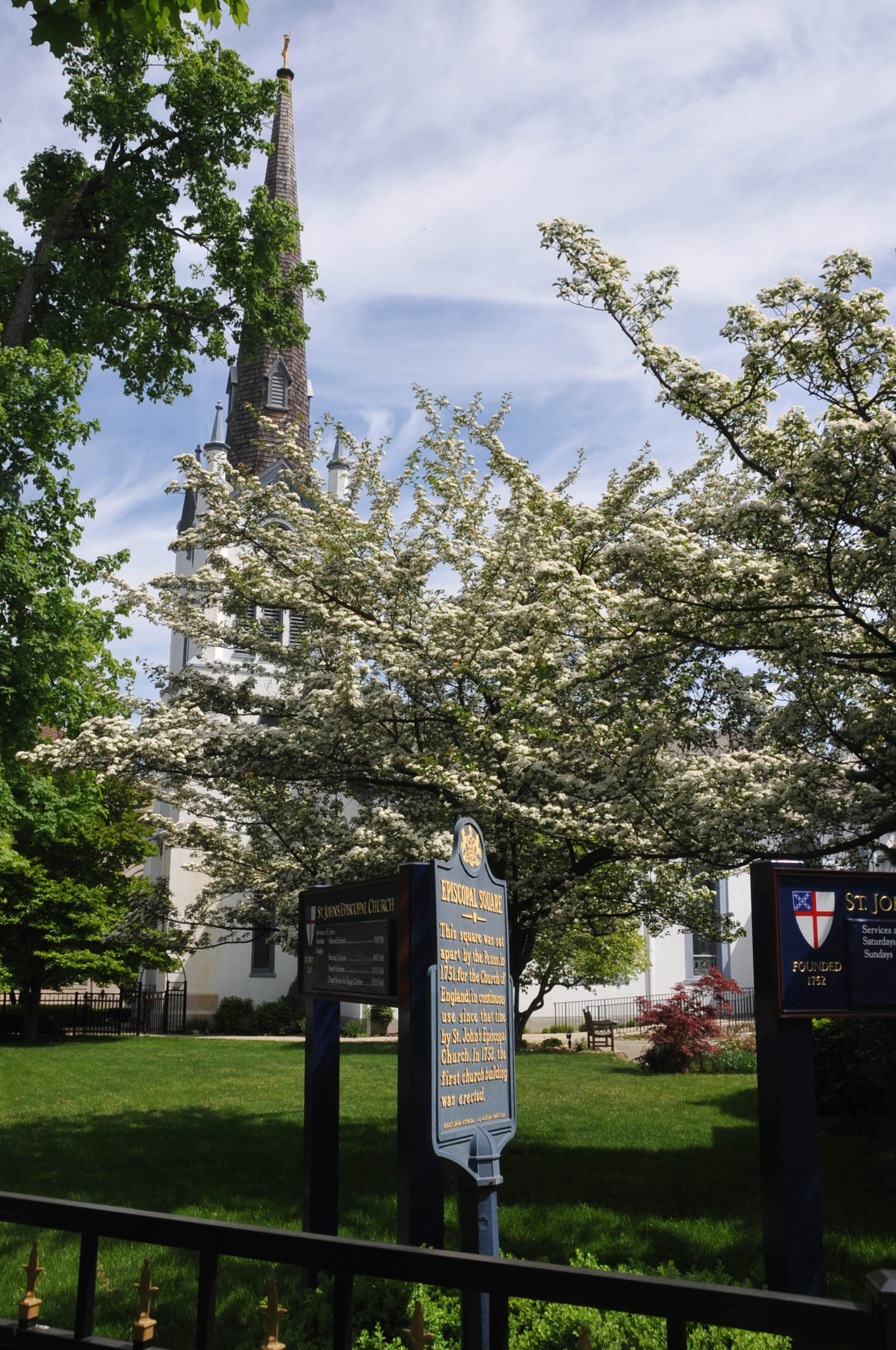 EPISCOPAL SQUARE CONTAINS ST. JOHN’S EPISCOPAL CHURCH FIRST ERECTED IN 1752